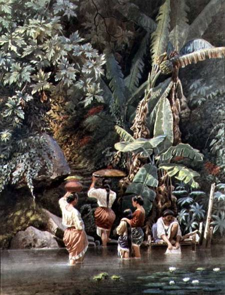 Handmade oil painting reproduction of Filipino Women Washing Beneath a Banana Tree, a painting by C. W. Andrews